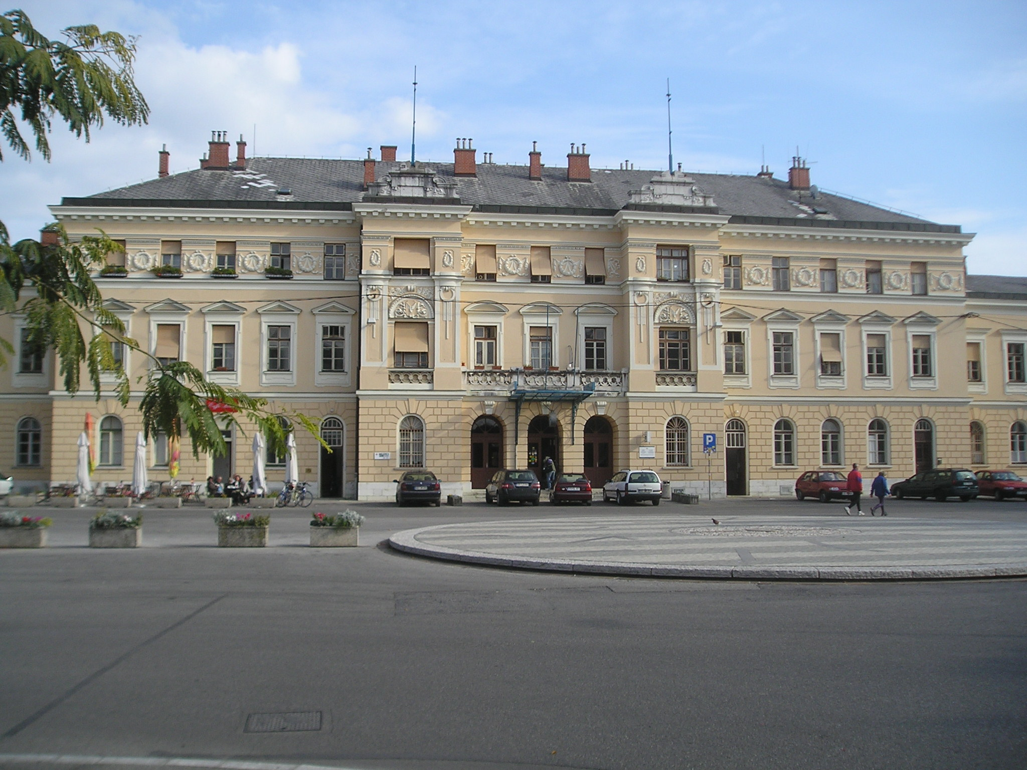 Train station in Nova Gorica, Slovenia, view from via Giuseppe Caprin in Gorizia (Italy)